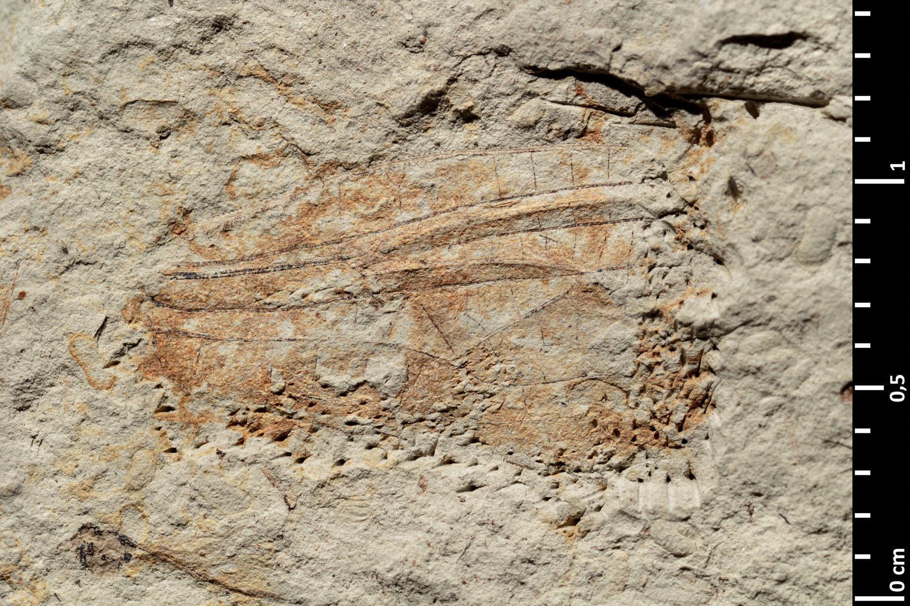 The Aeshna cerdanica holotype specimen part side with direct lighting. Vallesian/Turolian, Miocene; Bellver de Cerdanya, eastern Pyrenees, Spain Muséum national d'Histoire naturelle specimen MNHN.F.R10405